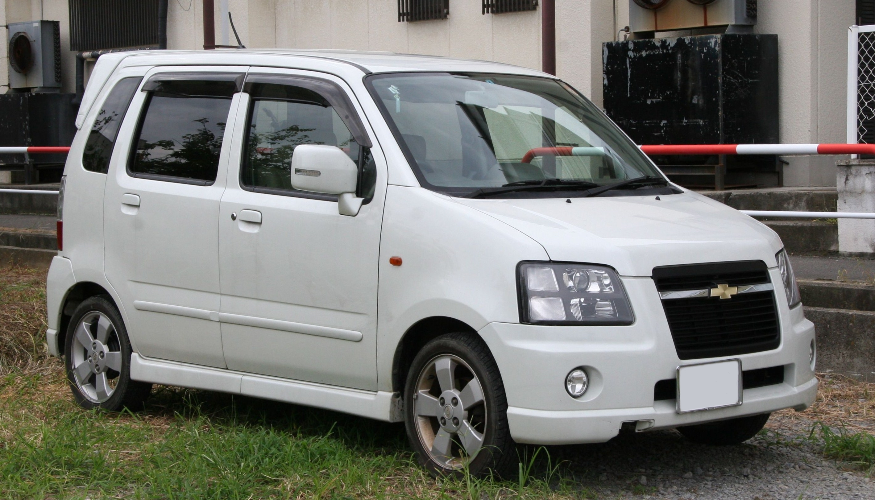 Chevrolet MW